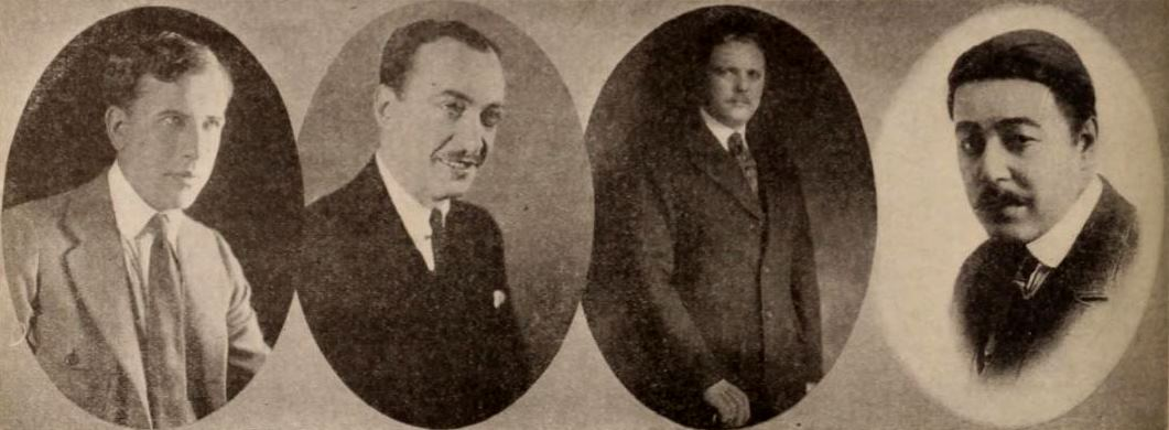 Producer and cast for the American film serial The Phantom Foe (1920) (listed under its working title The Mad Talon) with producer and writer George B. Seitz, Wallace McCutcheon Jr., William Bailey, and Warner Oland, on page 42 of the February 7, 1920 Exhibitors Herald.